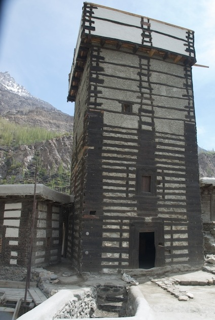 The tower of the Altit Fort in Karimabad, Hunza Valley, Pakistan after its restoration